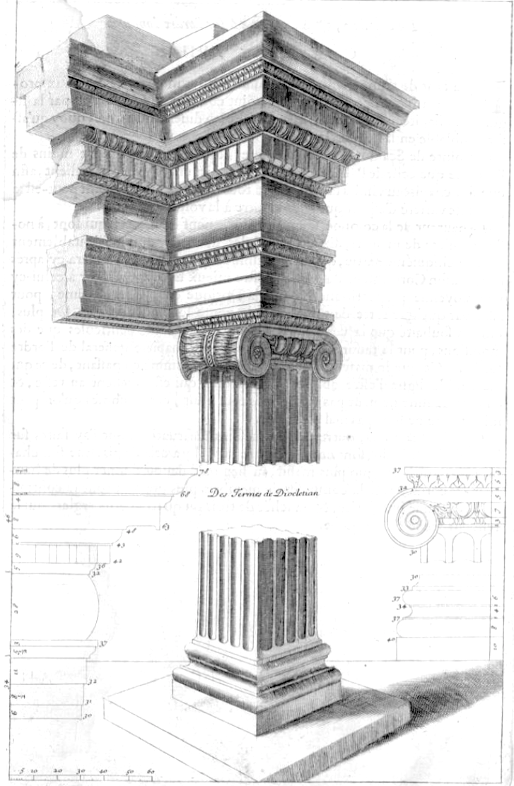 "Square column" from the baths of Diocletian in Rome, from a drawing by Charles Errard.